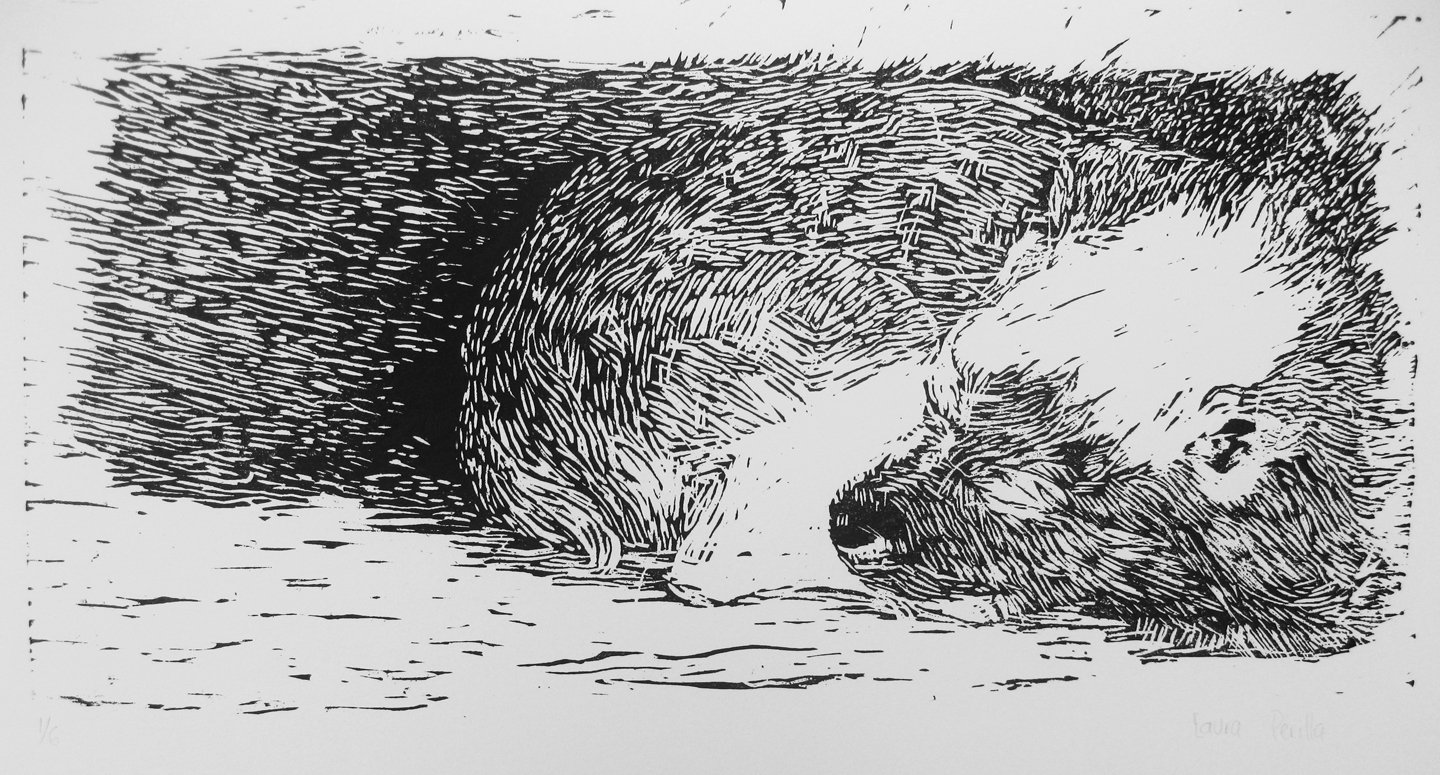 Monochrome Linocut (Linograbado) of small dog. — (Bogotá, Colombia).